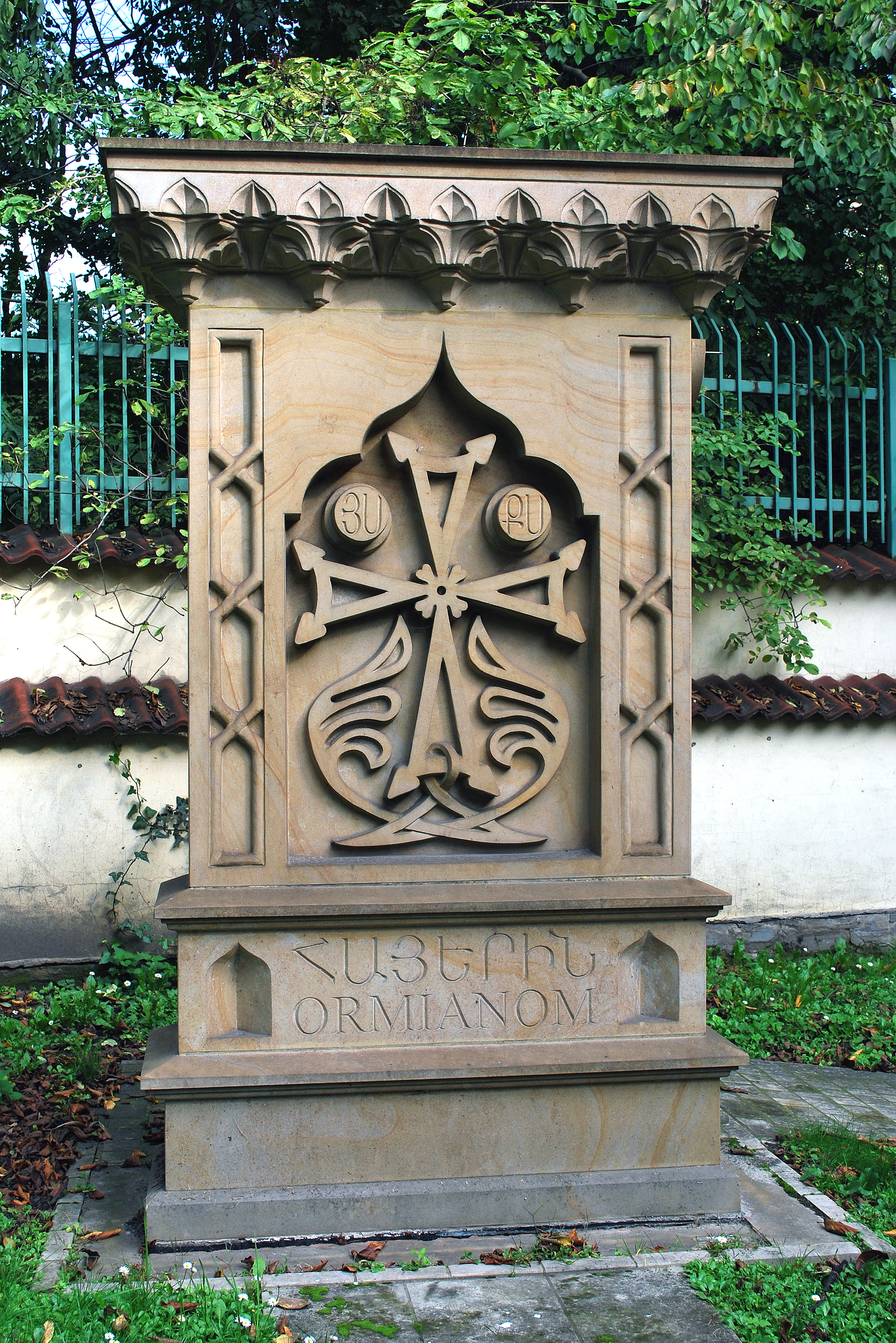 Khatchkar, 9 Kopernika street, Kraków, Poland